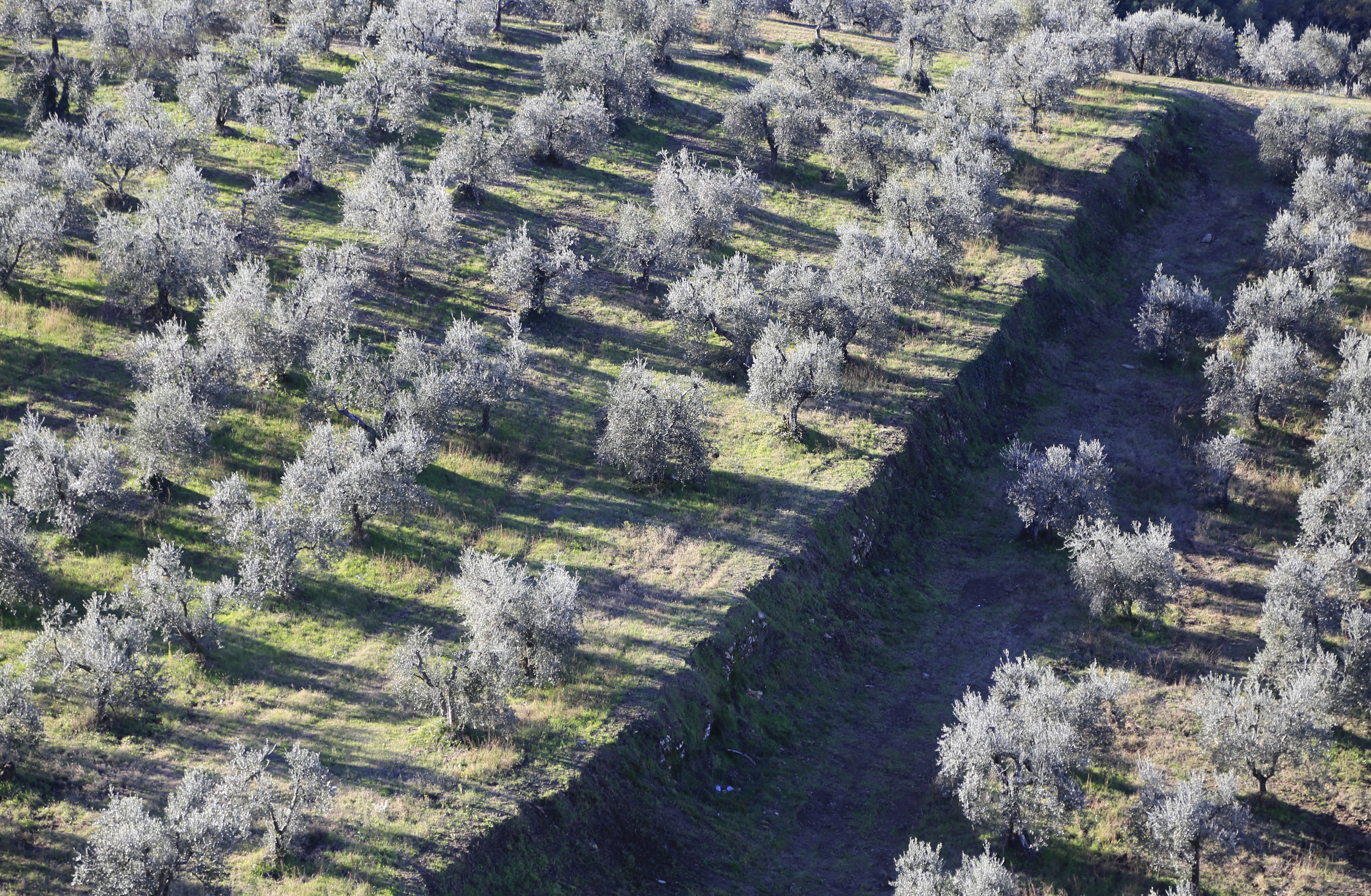 olive grove